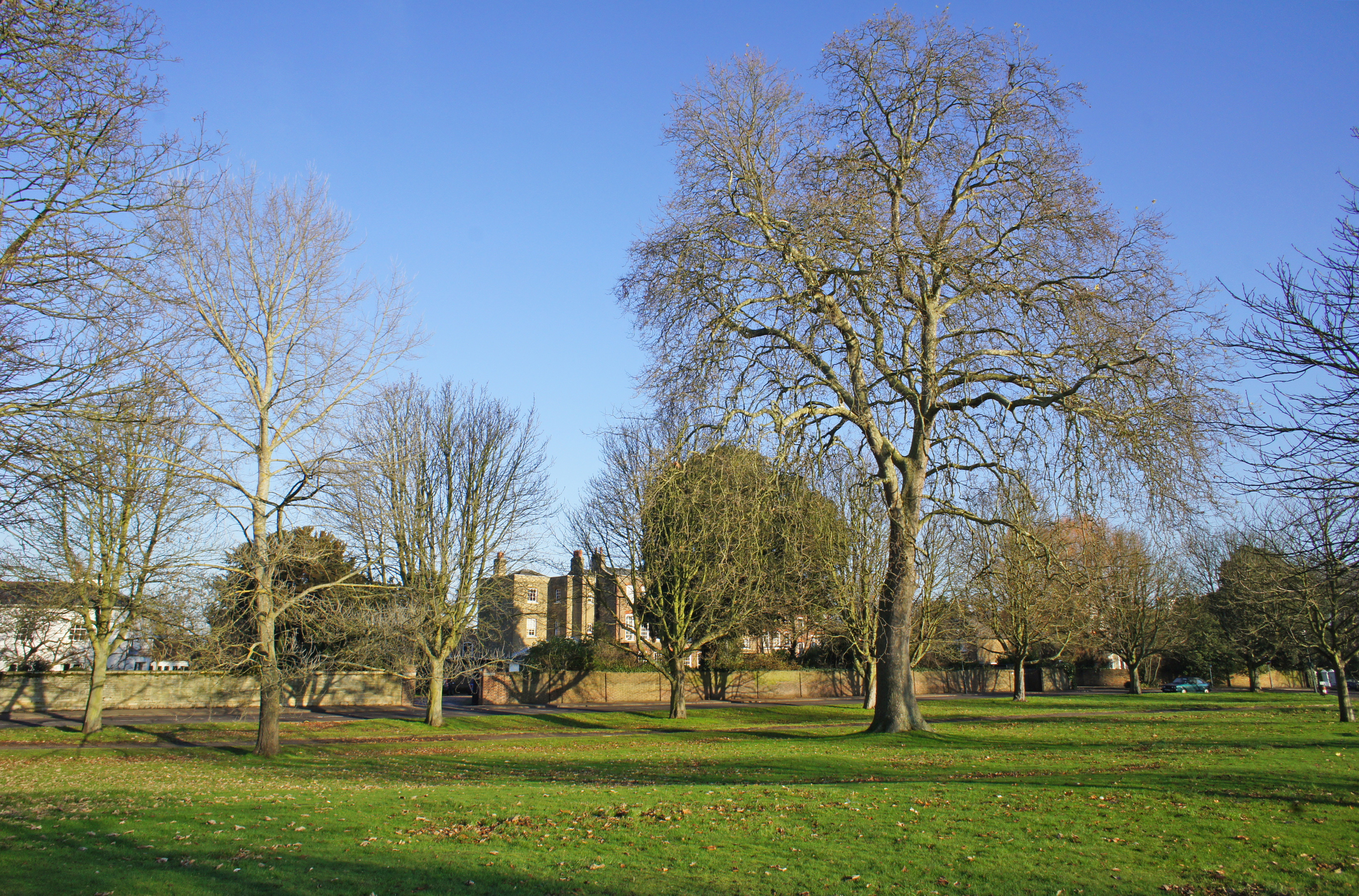 Ham Common in the winter.